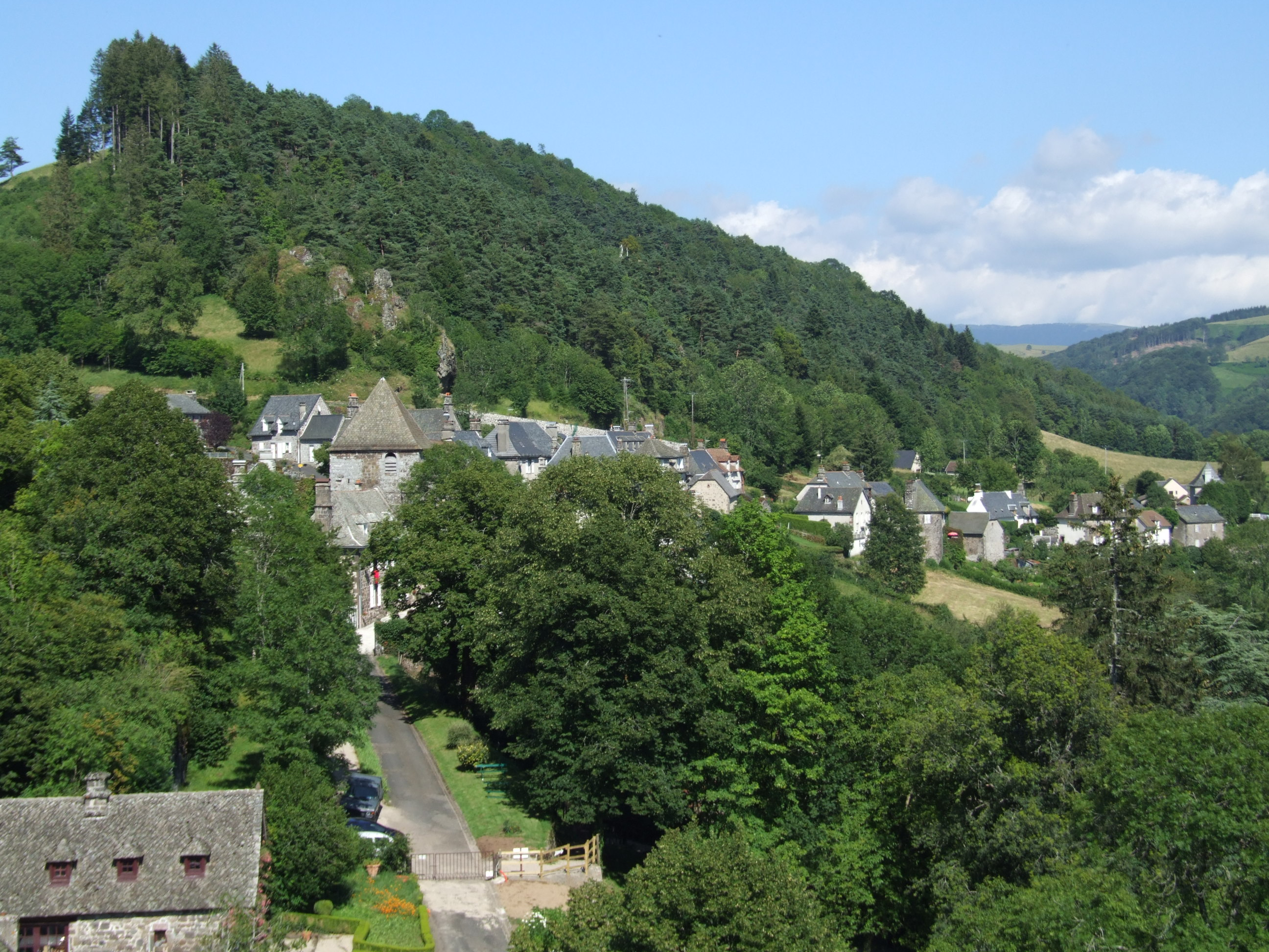 Tournemire, Cantal, Auvergne, FRANCE